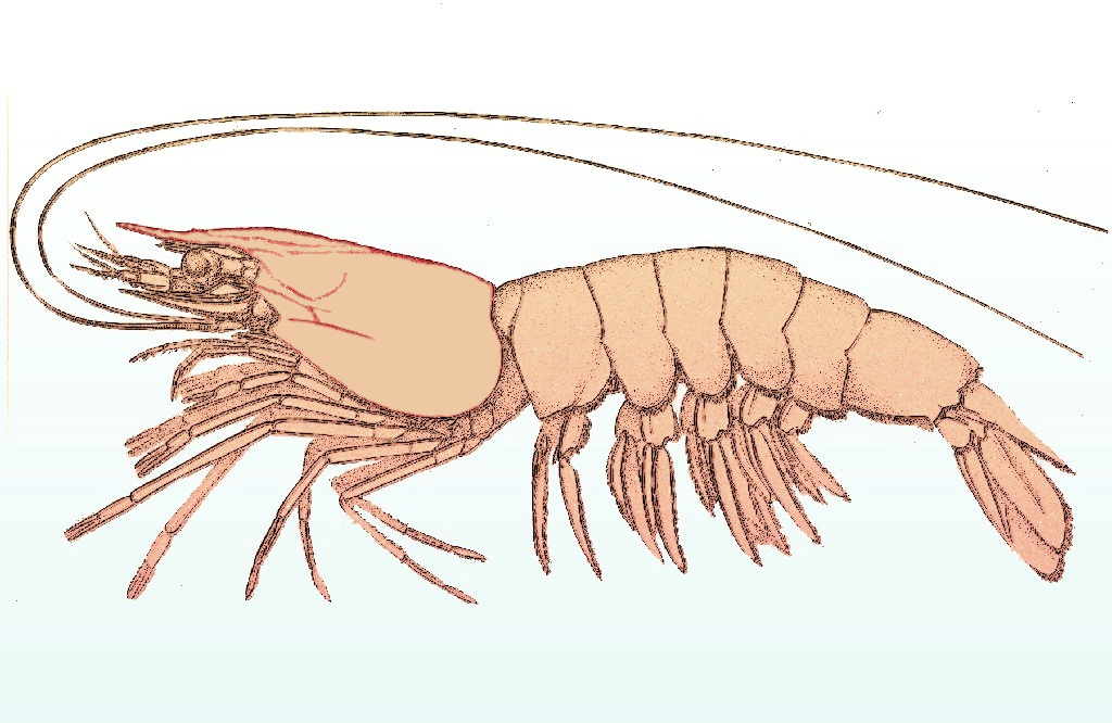 The prawn Litopenaeus setiferus (formerly Penaeus setiferus)